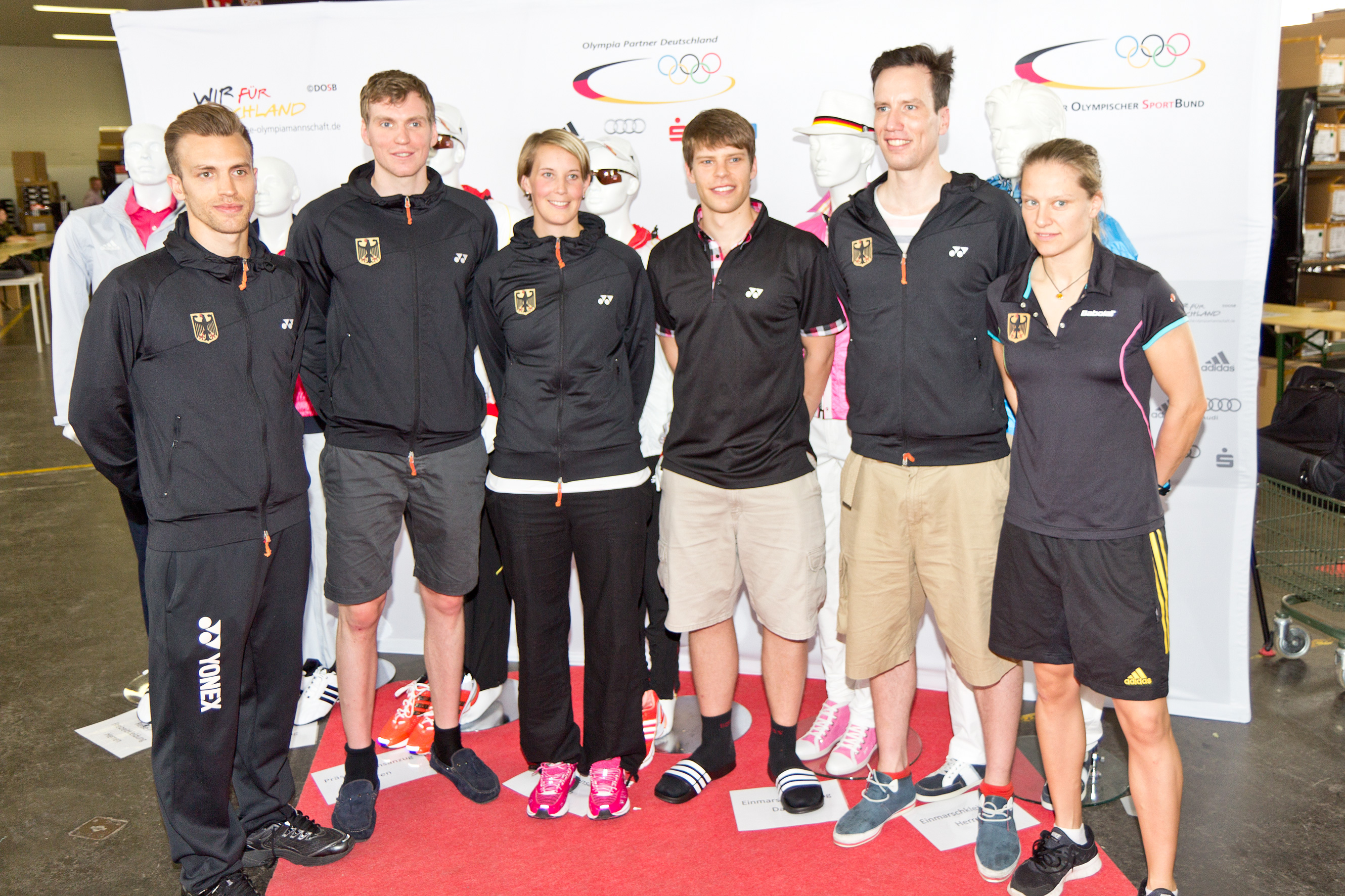 Outfitting the Olympic team of Germany 2012